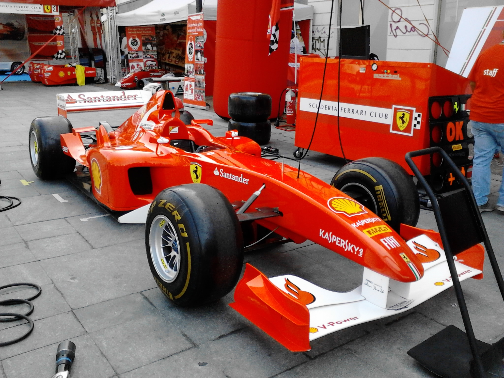 Ferrari in Monza